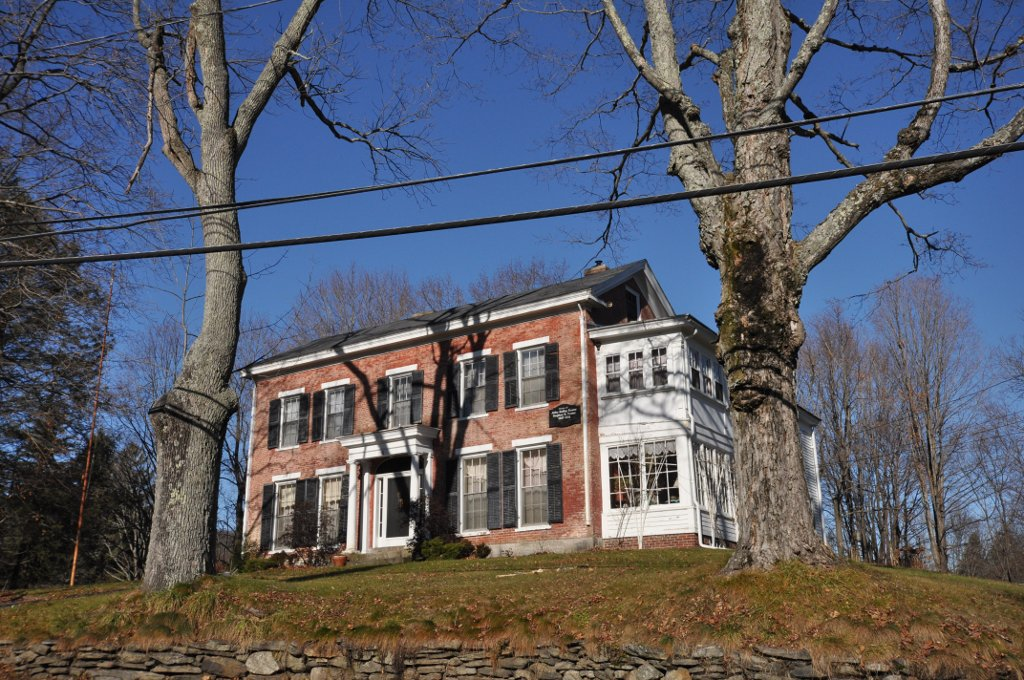 Liberty Farm in Worcester, Massachusetts.